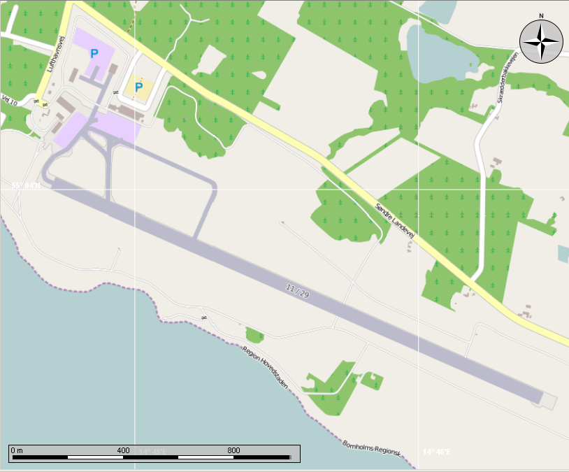 Open Street Map of the Bornholm Airport in Denmark. Made using the Marble program and GIMP.